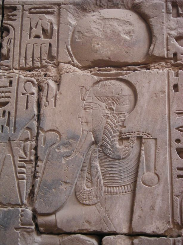 God Khonsu, wearing a Menat-with-counterpoise, and having his hair in a Sidelock. He is holding the combined staff of: Djed, Ankh, and Wsr-(Usr), and a Crook and Flail.